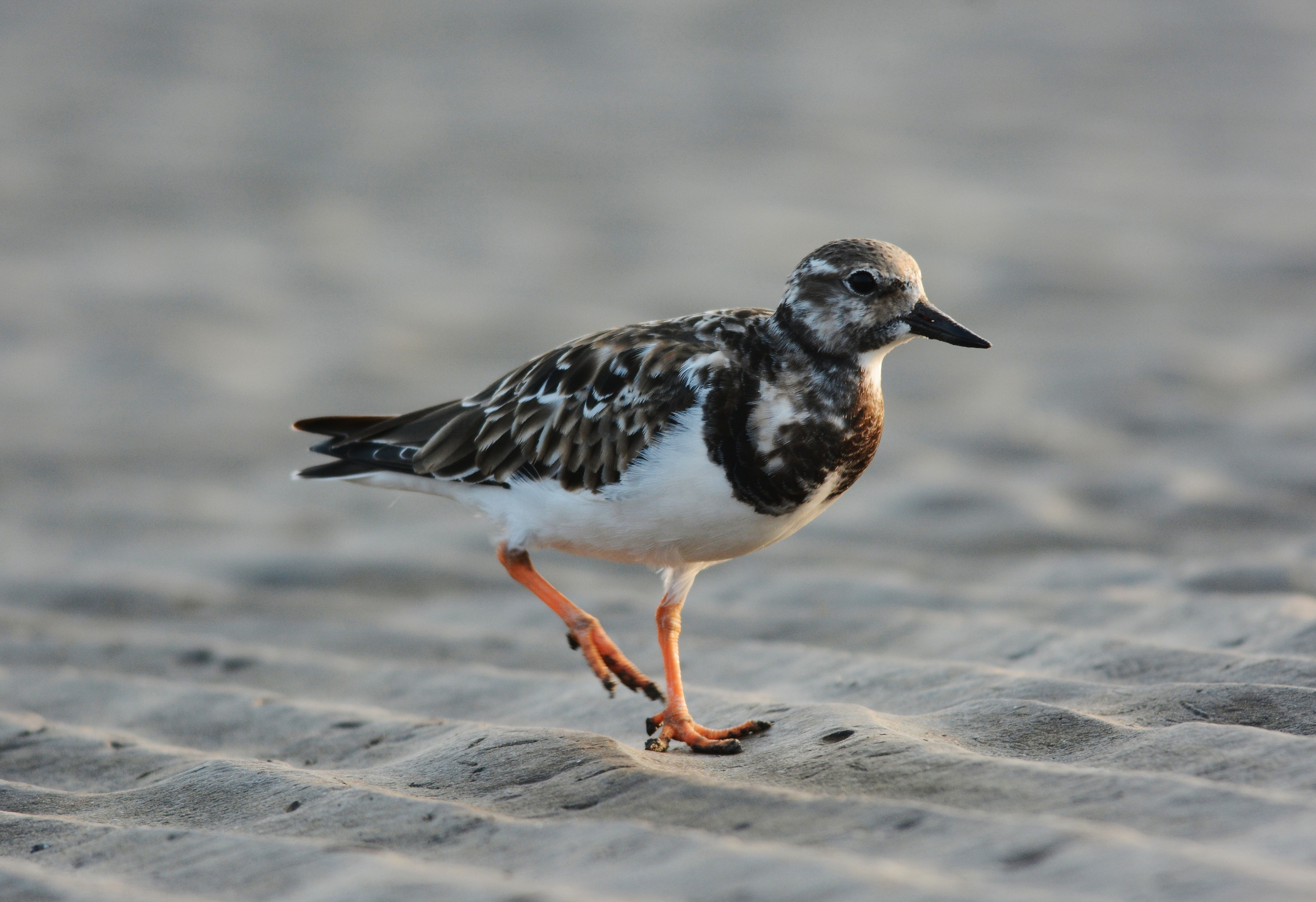 Ruddy Turnstone Arenaria interpres. Photo taken at Alibag, district Raigad, Maharashtra, India.